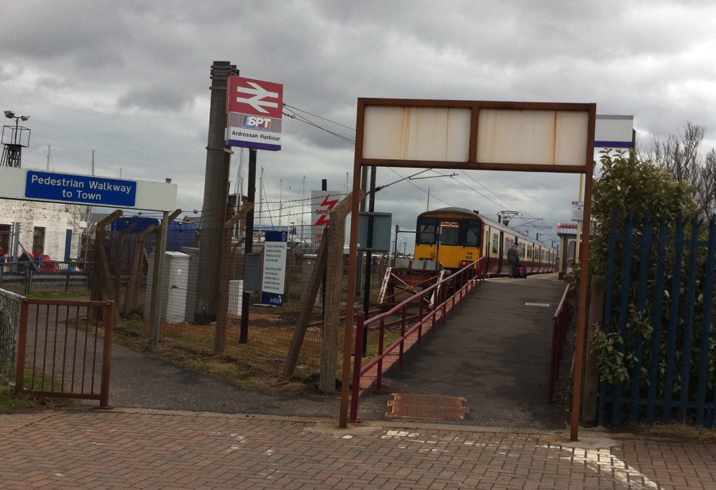 Ardrossan Harbour railway station, Scotland. July 2010.